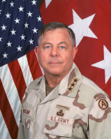 LTG R. Steven Whitcomb, commander of Third US Army, ARCENT, CFLCC. It is an official US Army Photograph, made strictly for official US Army requirements. It was photographed by a uniformed servicemember in the performance of their duties.